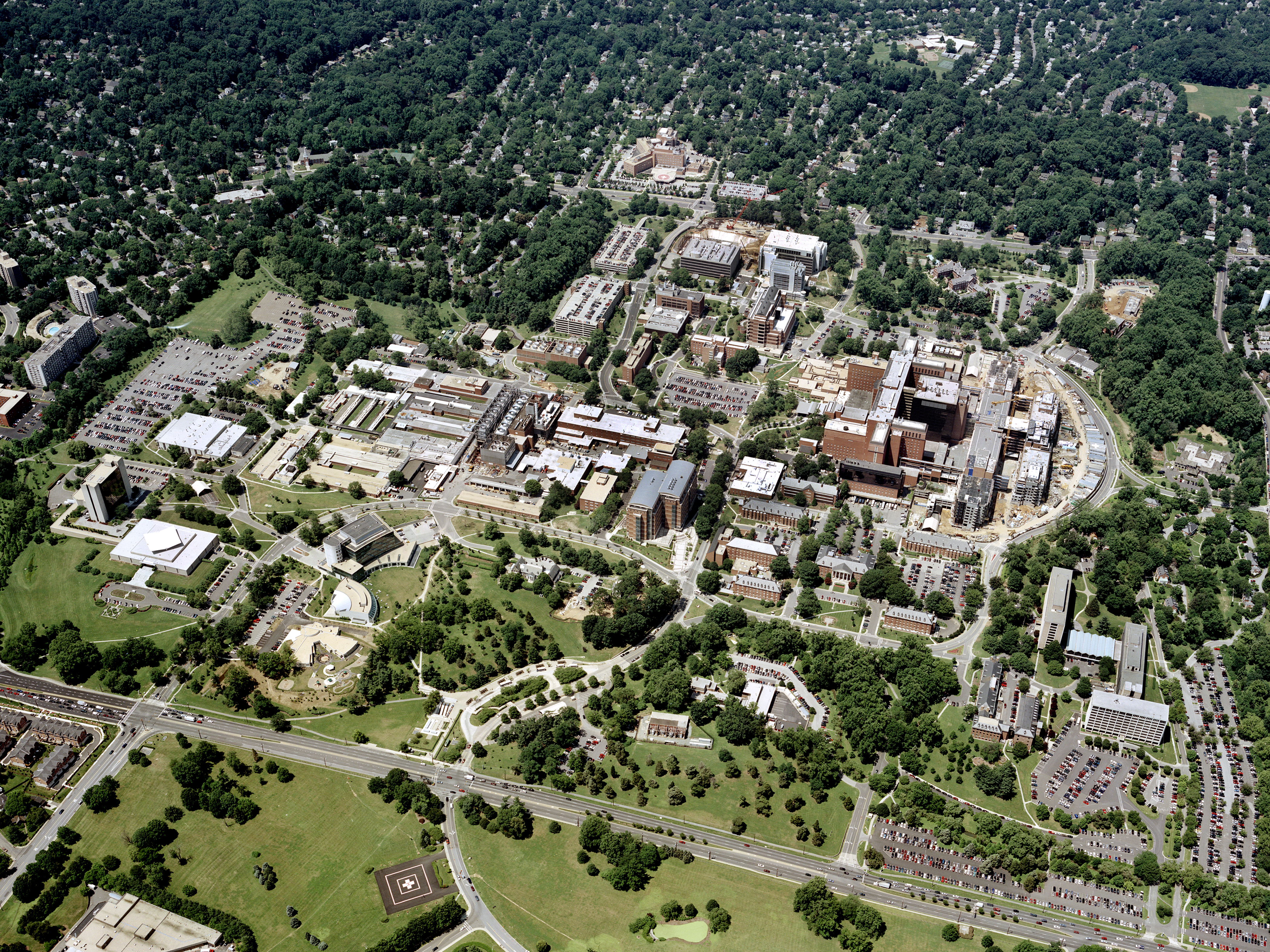 Title NIH Campus - Aerial Description An aerial view of the National Institutes of Health (NIH) campus. Topics/Categories Locations, NIH Type Color, Photo Source National Cancer Institute